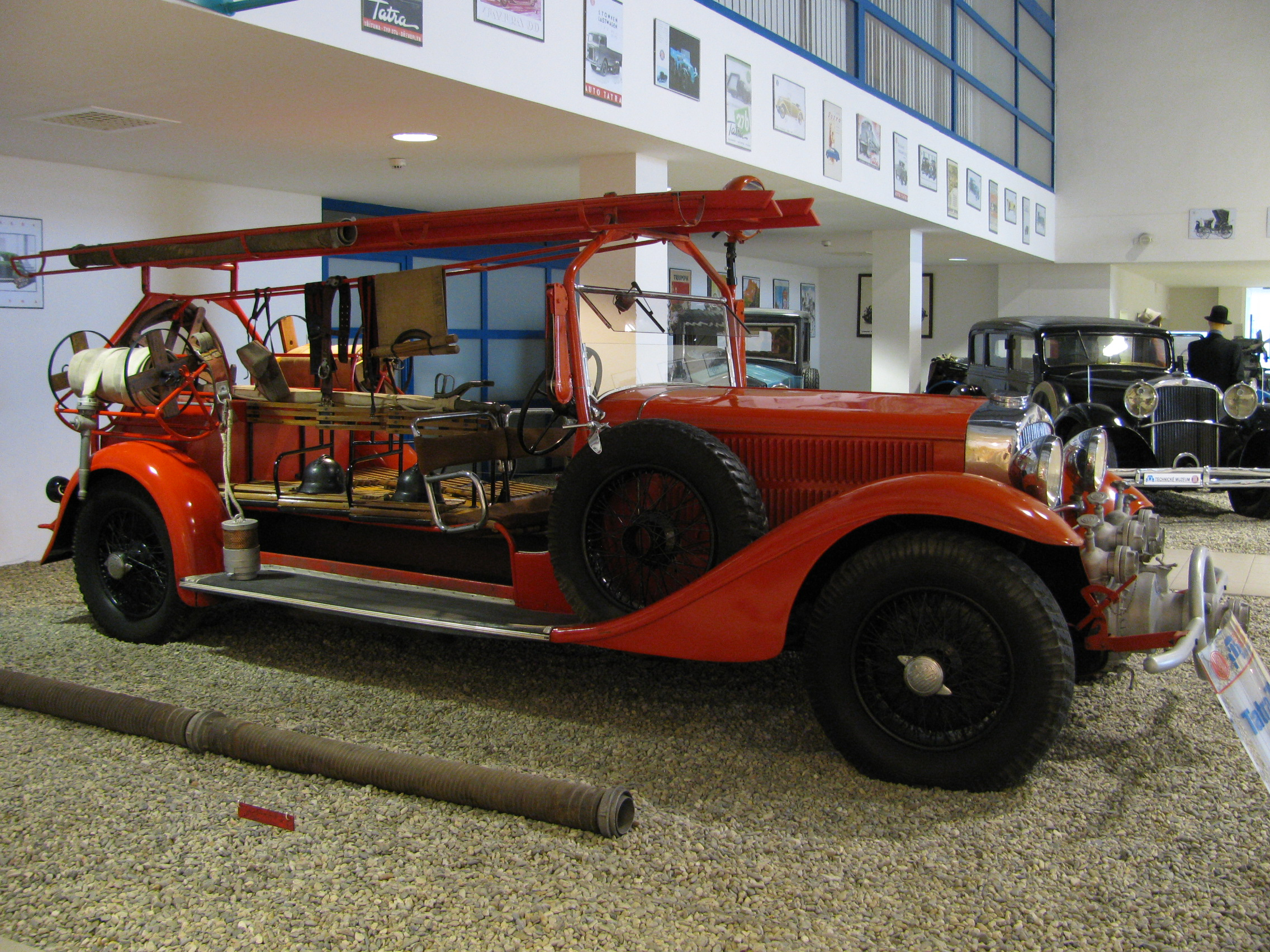 Tatra 70 fire engine in Tatra Technical Museum, Kopřivnice, Czech Republic.